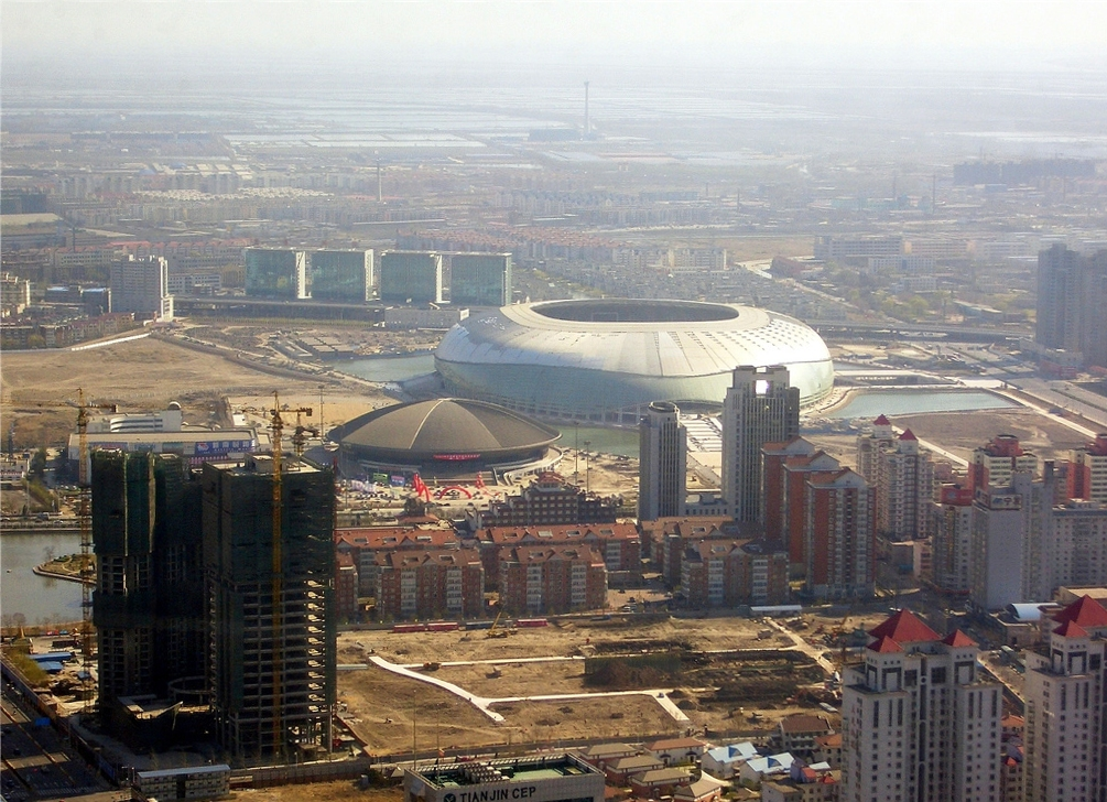 View of Tianjin from the observation room of the Tianjin TV Tower. This is the 2008 Olympic Stadium almost finished (April 03, 2007).